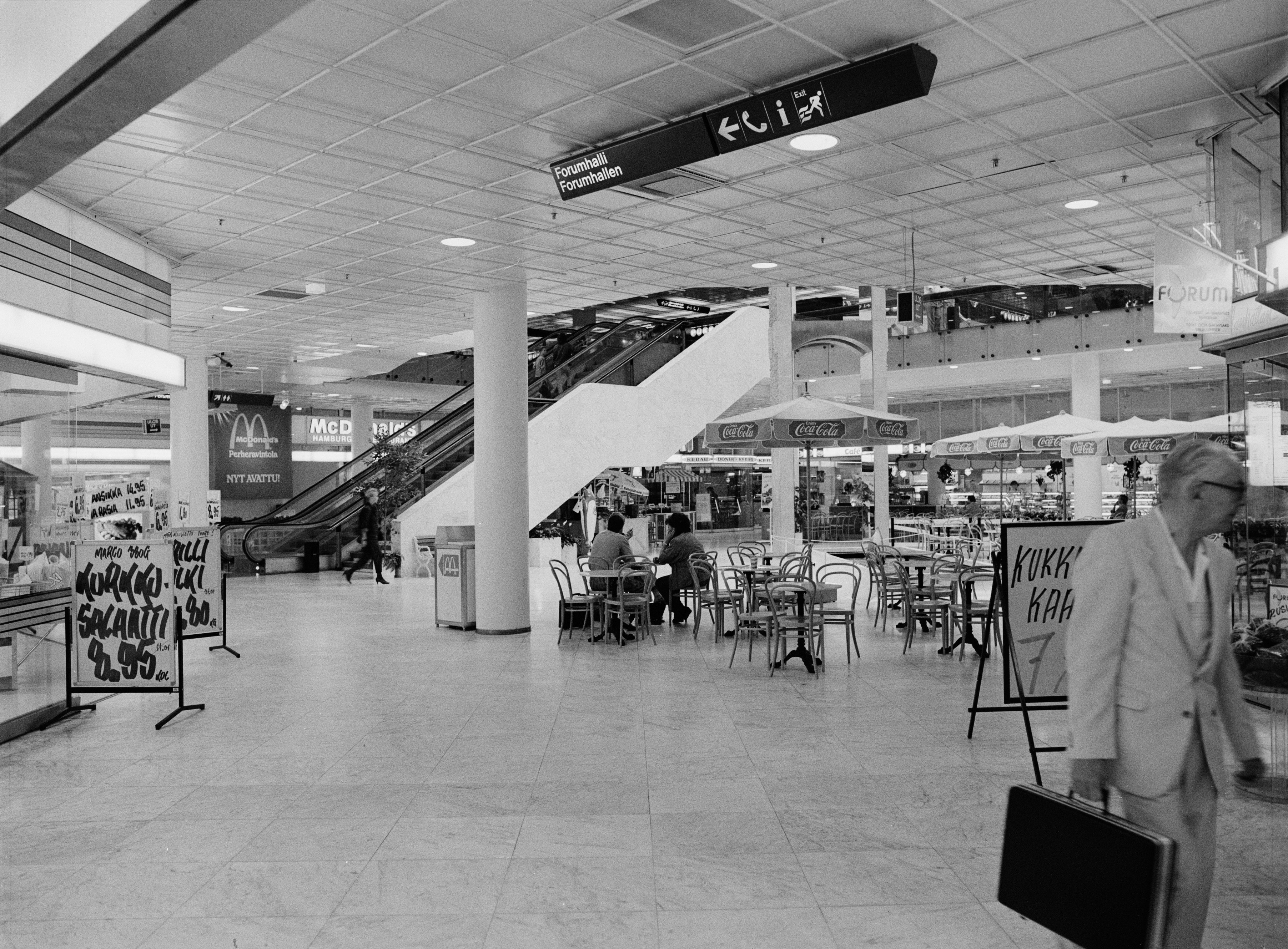 The ground floor of Forum shopping mall in Helsinki, Finland in 1986. The mall is opened in November 1985, and there is still e.g. one of the oldest McDonald's restaurants in Finland.